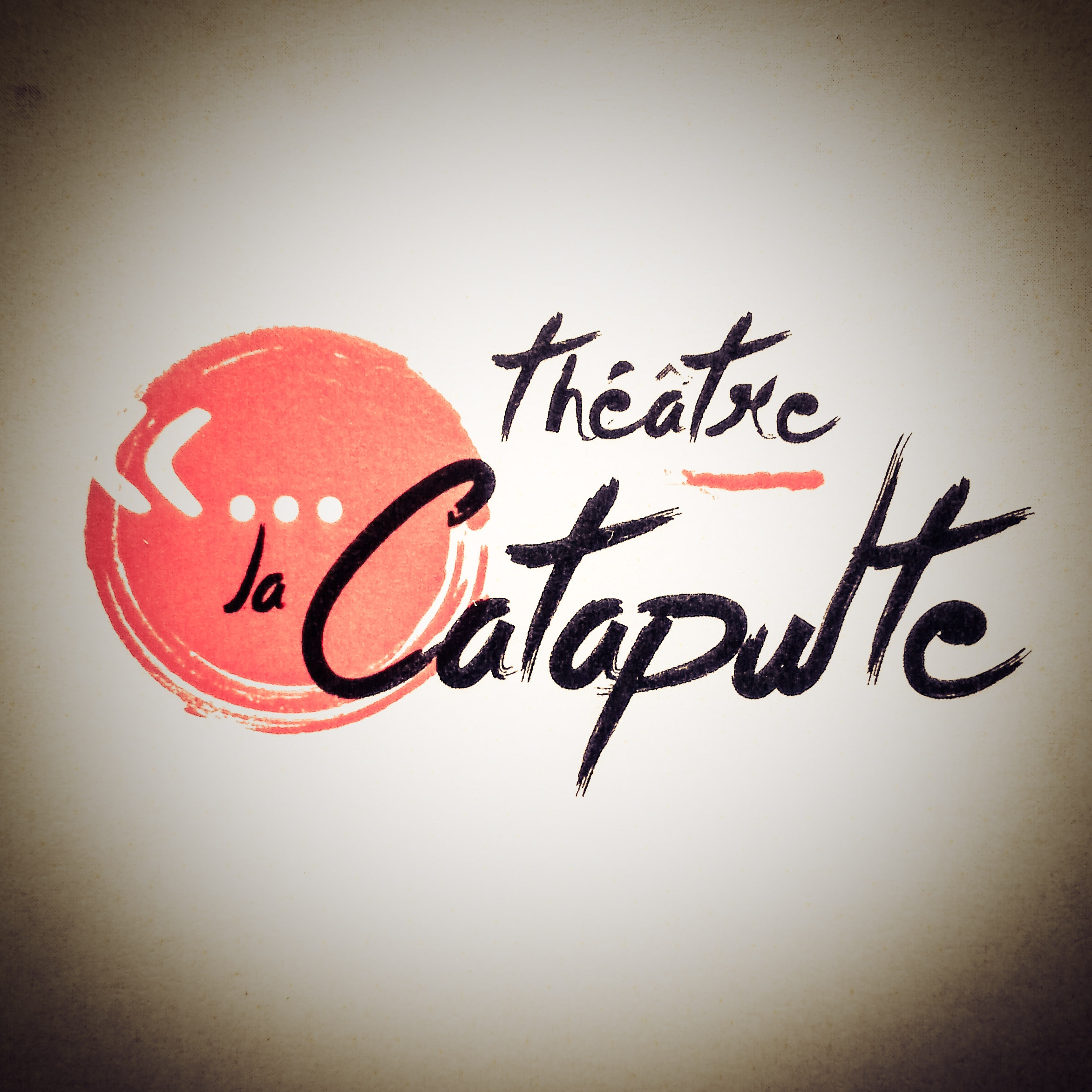 Le logo de la compagnie photographié avec l'aide d'un téléphone.